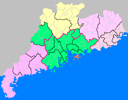 Map of Guangdong Province — along the South China Sea coast, in Southeastern China. The Guangdong-Hong Kong-Macao Greater Bay Area is indicated in green, and Pearl River Delta Economic Zone is indicated in red line.